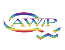 AWP logo alt version